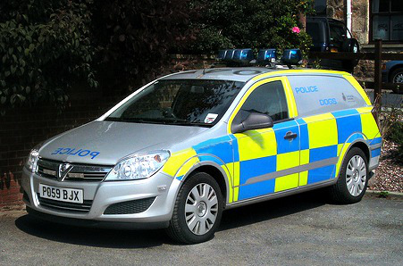 Carnforth